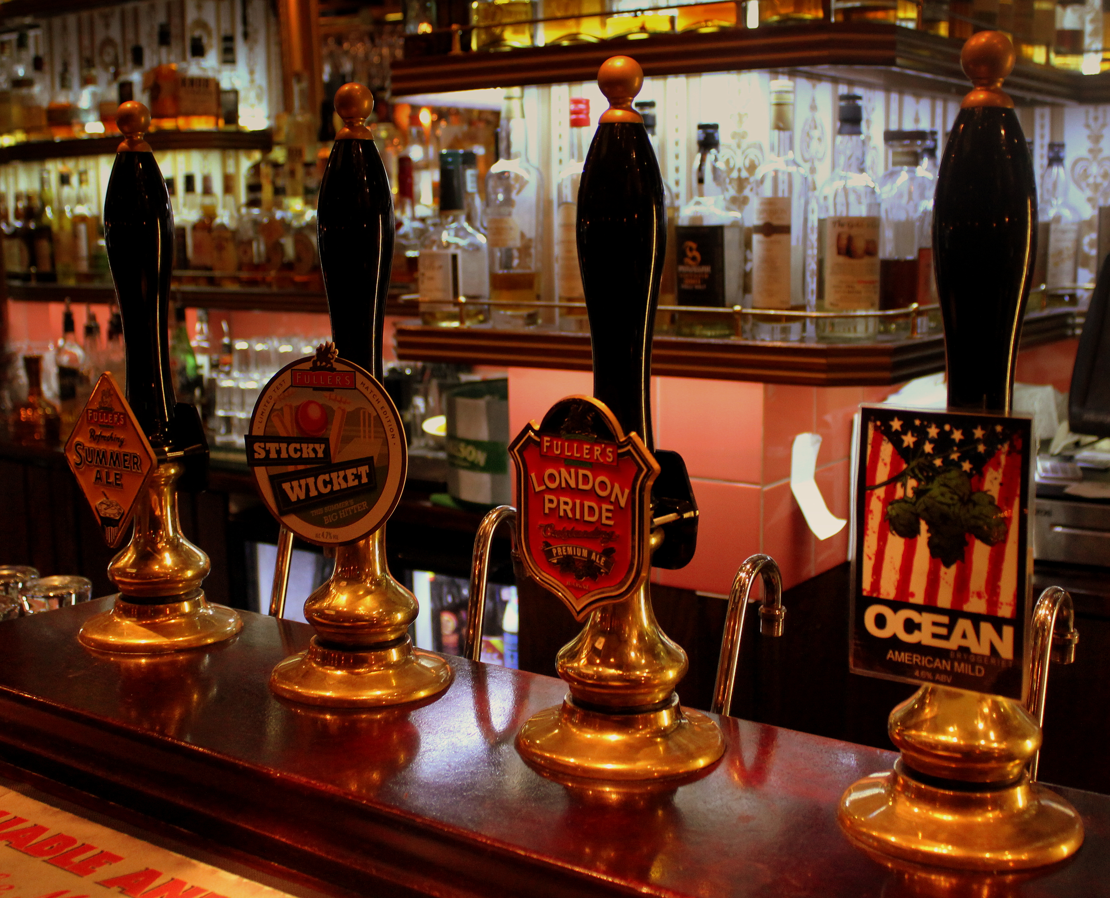 HANDPUMPED BEERS AT THE BISHOPS ARMS PUB OPP MALMO CENTRAL STATION SWEDEN SEP 2013